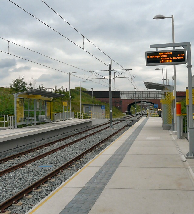 Monsall is a new build on the line of a former dismantled heavy rail line. Taken on the first day of operation of the Metrolink extension to Oldham. As the electronic screen tells us, a tram is approaching. We are also informed that the next tram to St Werburgh's Road will be along in 14 minutes. And if the time is correct then comparing it to the information in the photograph's EXIF data the clock in my camera is 12 minutes fast (less an hour slow as it's still set to GMT).